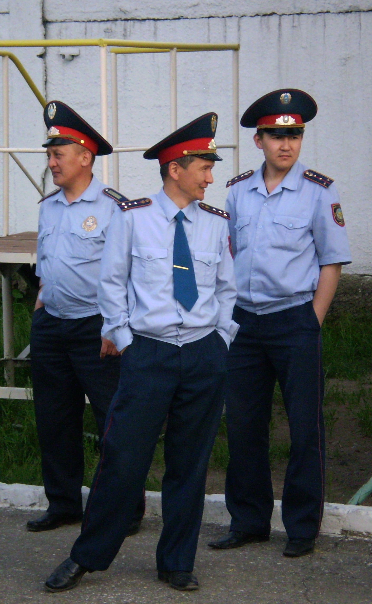 Kazakhstan police officers